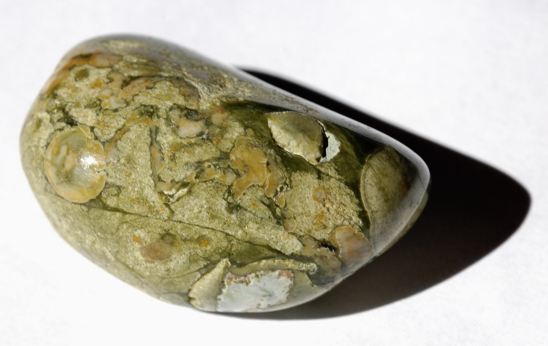 Jasper